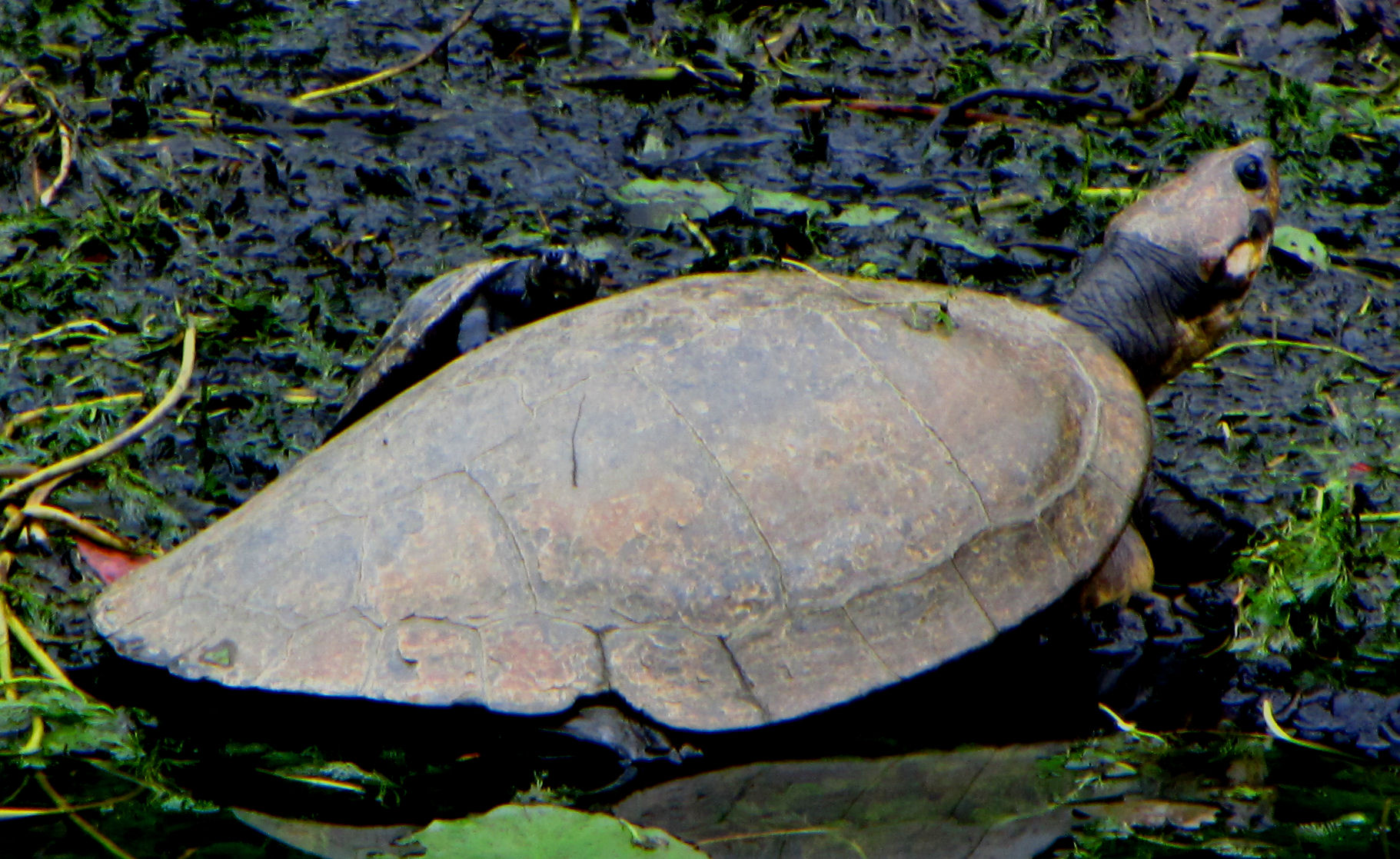 Savanna Side-necked Turtle (Podocnemis vogli), Medellin, Colombia